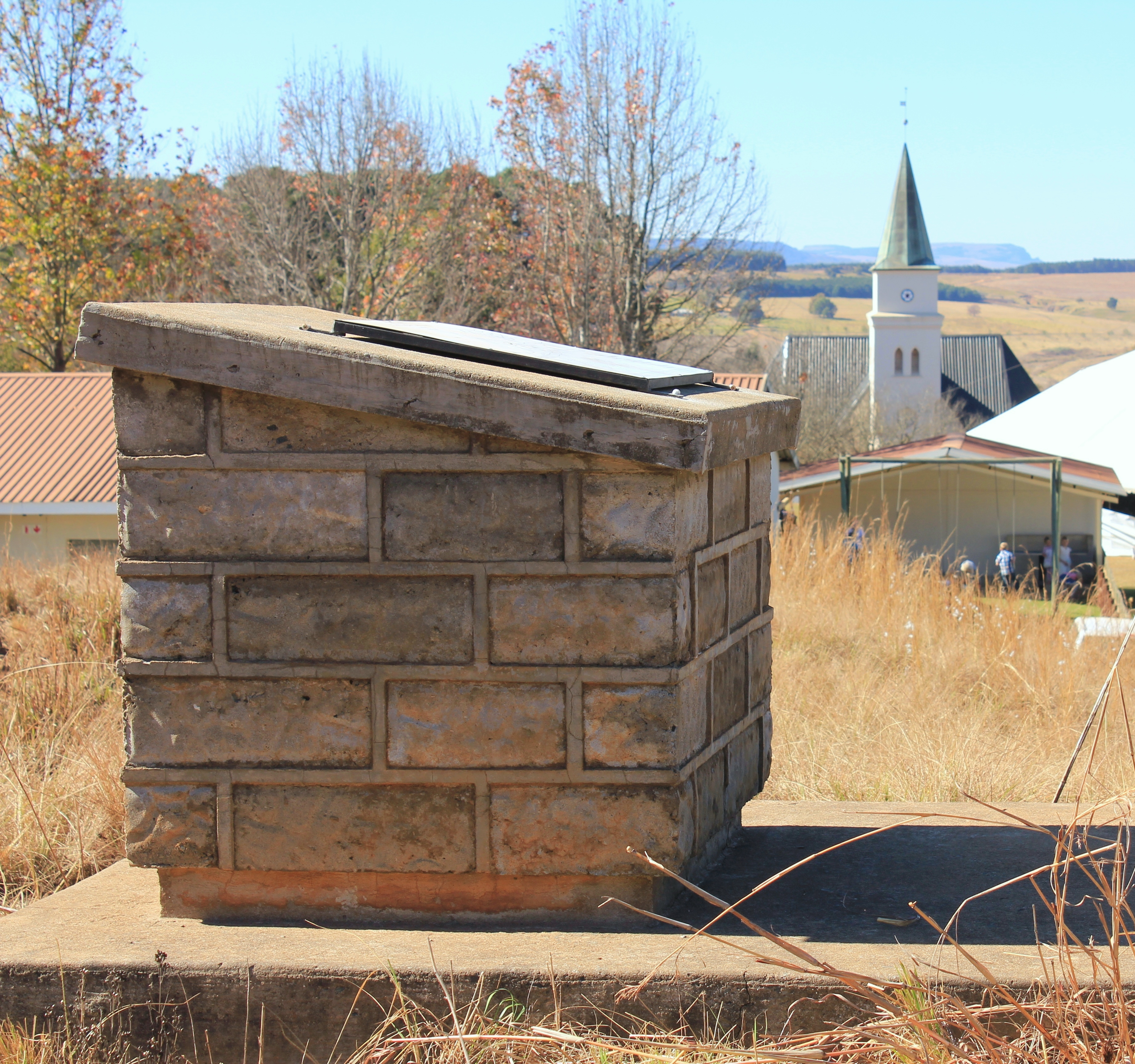 Fort Clery monument at Lüneburg, KwaZulu-Natal. Fort Clery at Camp Lüneburg, District Utrecht, Transvaal, was completed on 19 December 1878. From 1875 onwards, raids on farms around Lüneburg and killings of baptized Zulus started to escalate. Therefore the German settlers of Lüneburg built a Laager around their church, surrounded by a moat, which was filled with water from a furrow. When threatened, the settlers stayed in this Laager. During the Anglo-Zulu war in 1879, 120 grown-ups and children found shelter there for 9 months. Assistance from Pretoria, the capital of the Z.A.R., had been declined, because of their own problems. In 1877 the Z.A.R. (Transvaal) was annexed by British forces. The Germans then asked for support from the English authorities. They sent Colonel Wood with the 90th regiment for protection. He then erected Fort Clery in 1878. Although only 9 km from the Ntombe massacre site, the fort was never used in battle, but served i.a. as an ammunition depot.